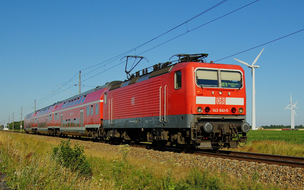 Series 143 841 near Ribnitz-Damgarten Ost.